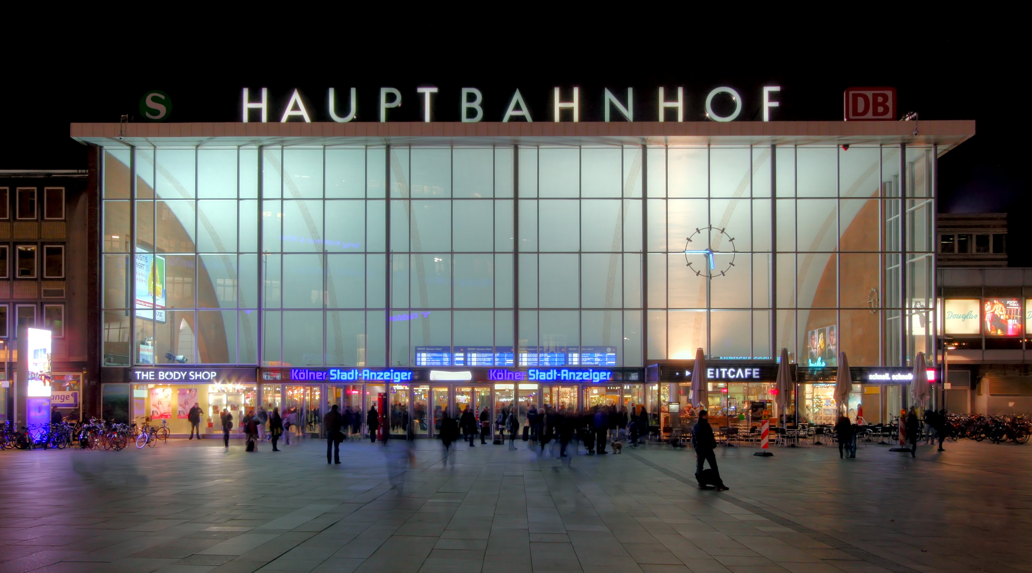 The station building of Cologne Main Station at night.